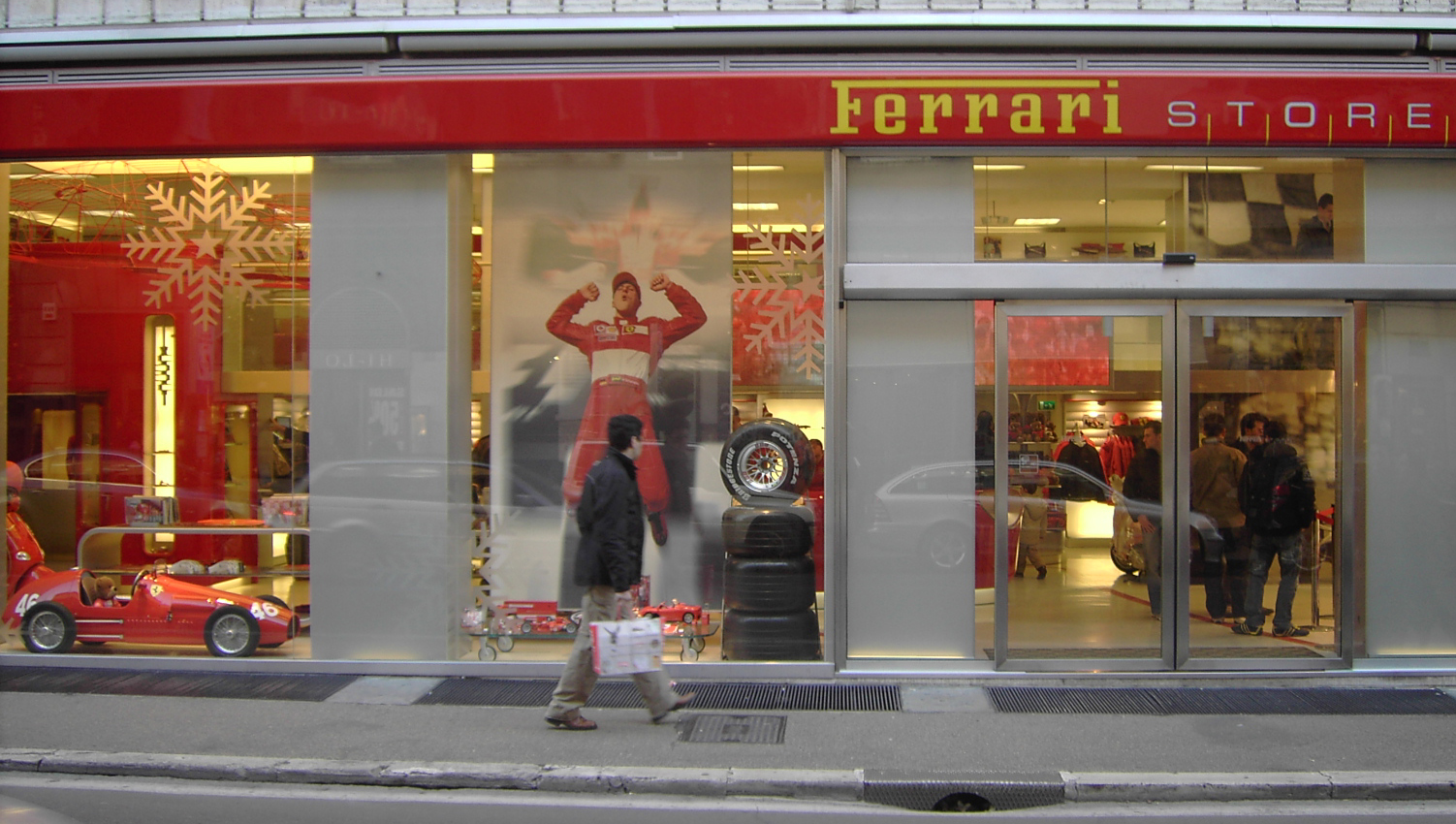 The Ferrari Store in Rome